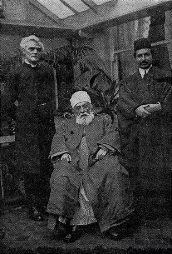 Photograph of `Abdu'l-Bahá with Reginald John Campbell